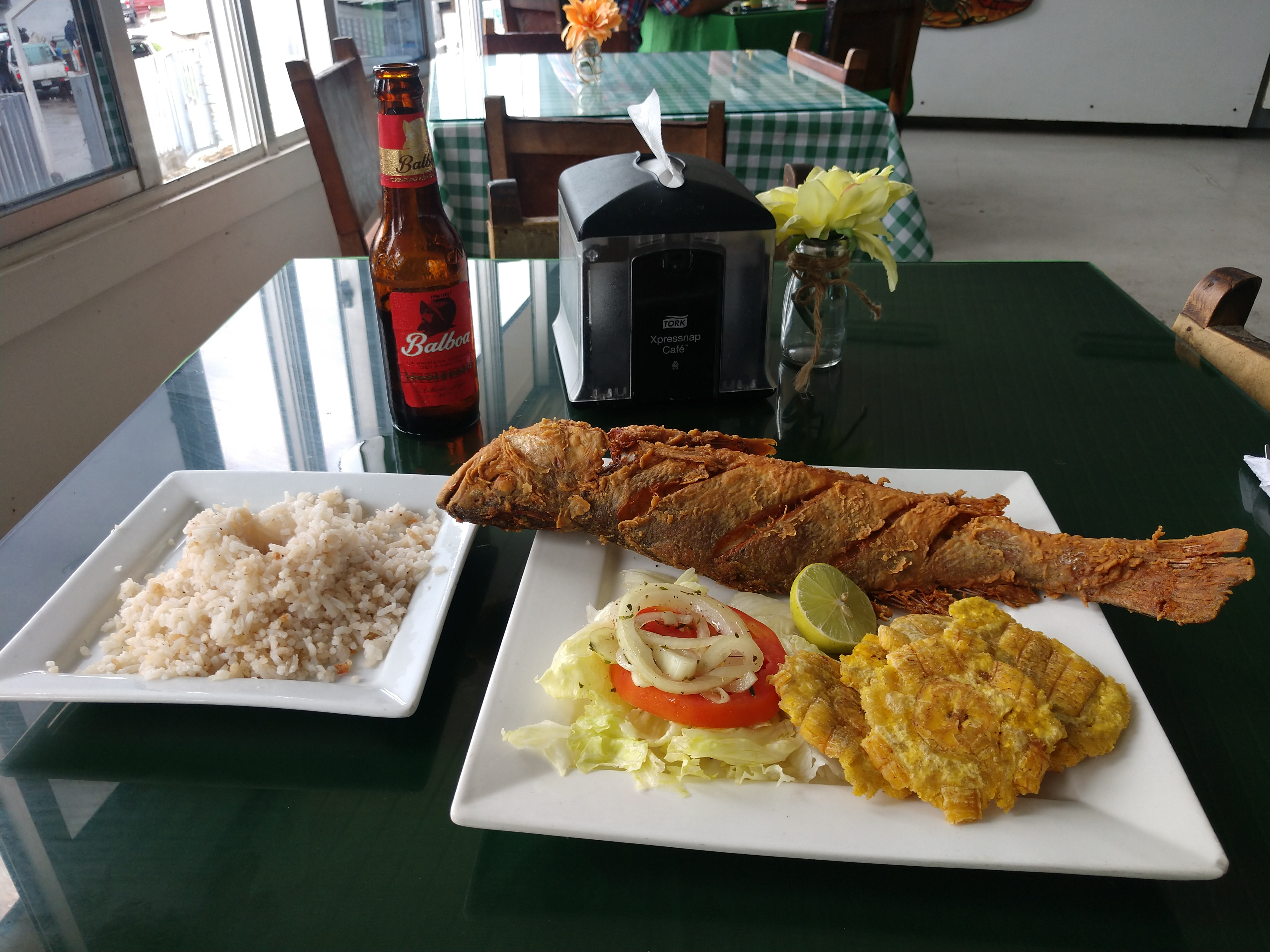 Coconut rice, fried fish, tostones and Balboa beer. Fish Market of Panama City